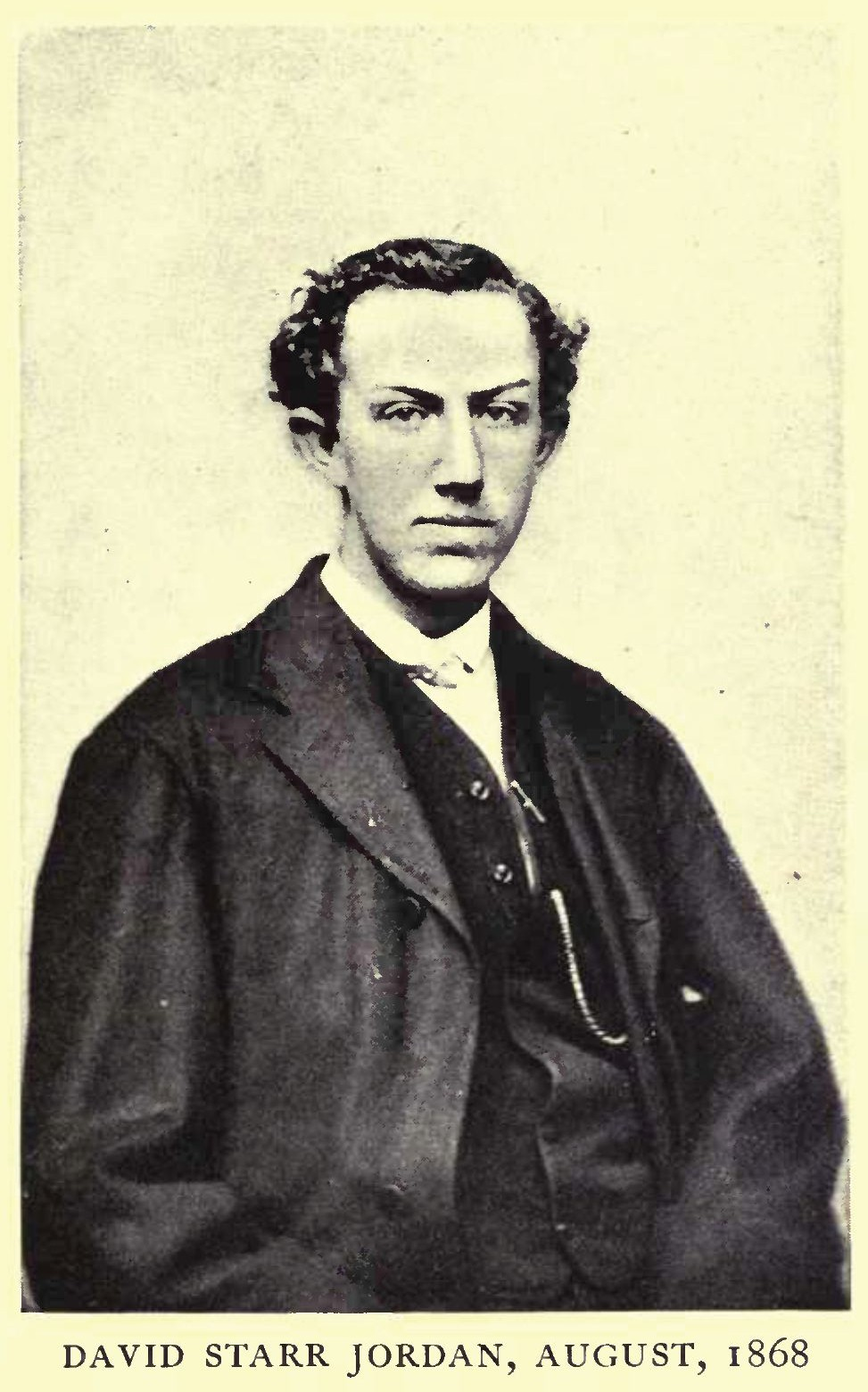 Portrait of David Starr Jordan, 1868 from his autobiography Days of a Man (1922)